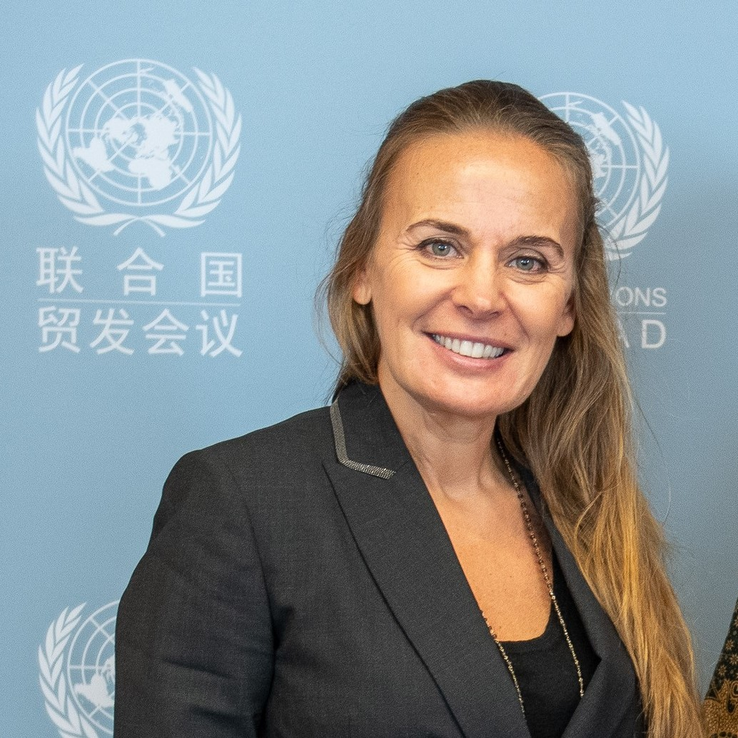 Dona Bertarelli and UNCTAD Secretary-General Dr. Mukhisa Kituyi meet in 2018. Ms. Bertarelli is the Special Adviser of UNCTAD for the Blue Economy as of June 2020. She is the fastest woman to sail around the world, a philanthropist, ocean conservation advocate, and entrepreneur.